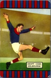 Photo of Geoff Case taken in 1954